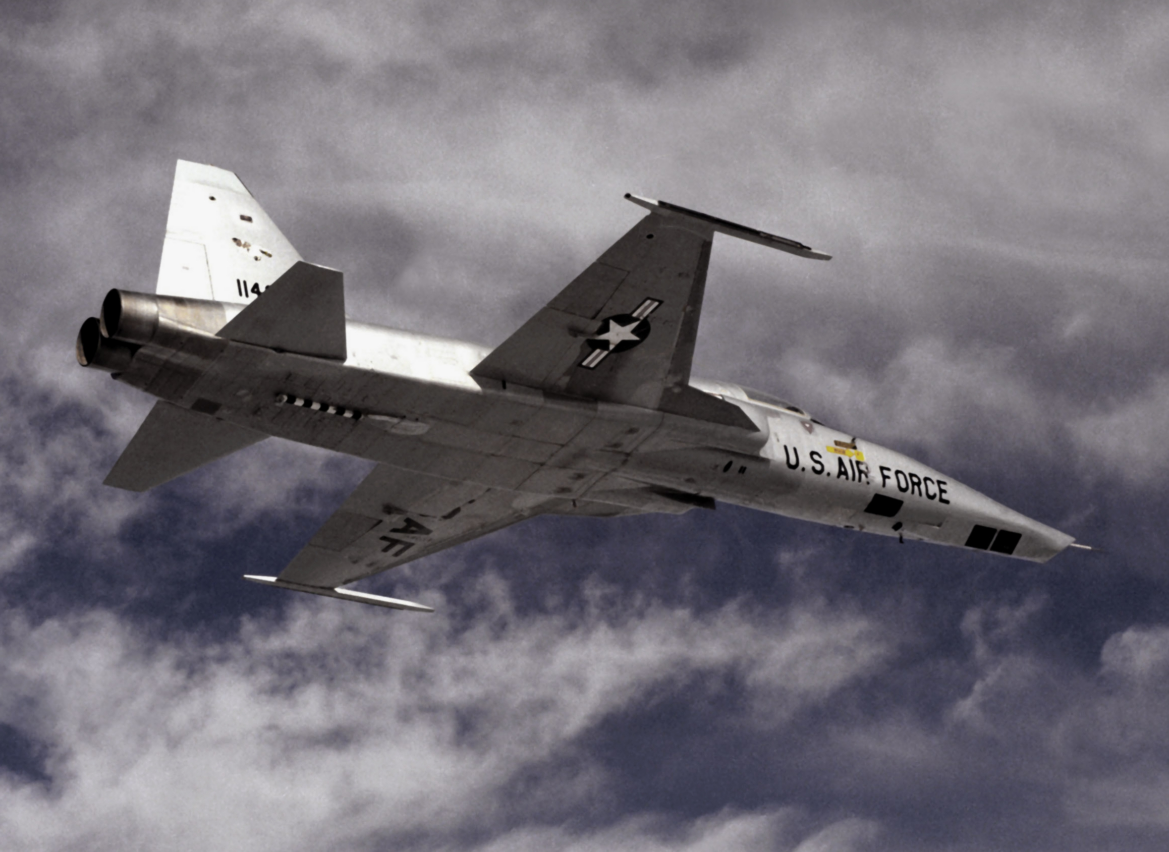 A right underside view of the U.S. Air Force Northrop RF-5E Tigereye reconnaissance system testbed aircraft (s/n 71-1420). This aircraft was sold to Brazil in 1989.